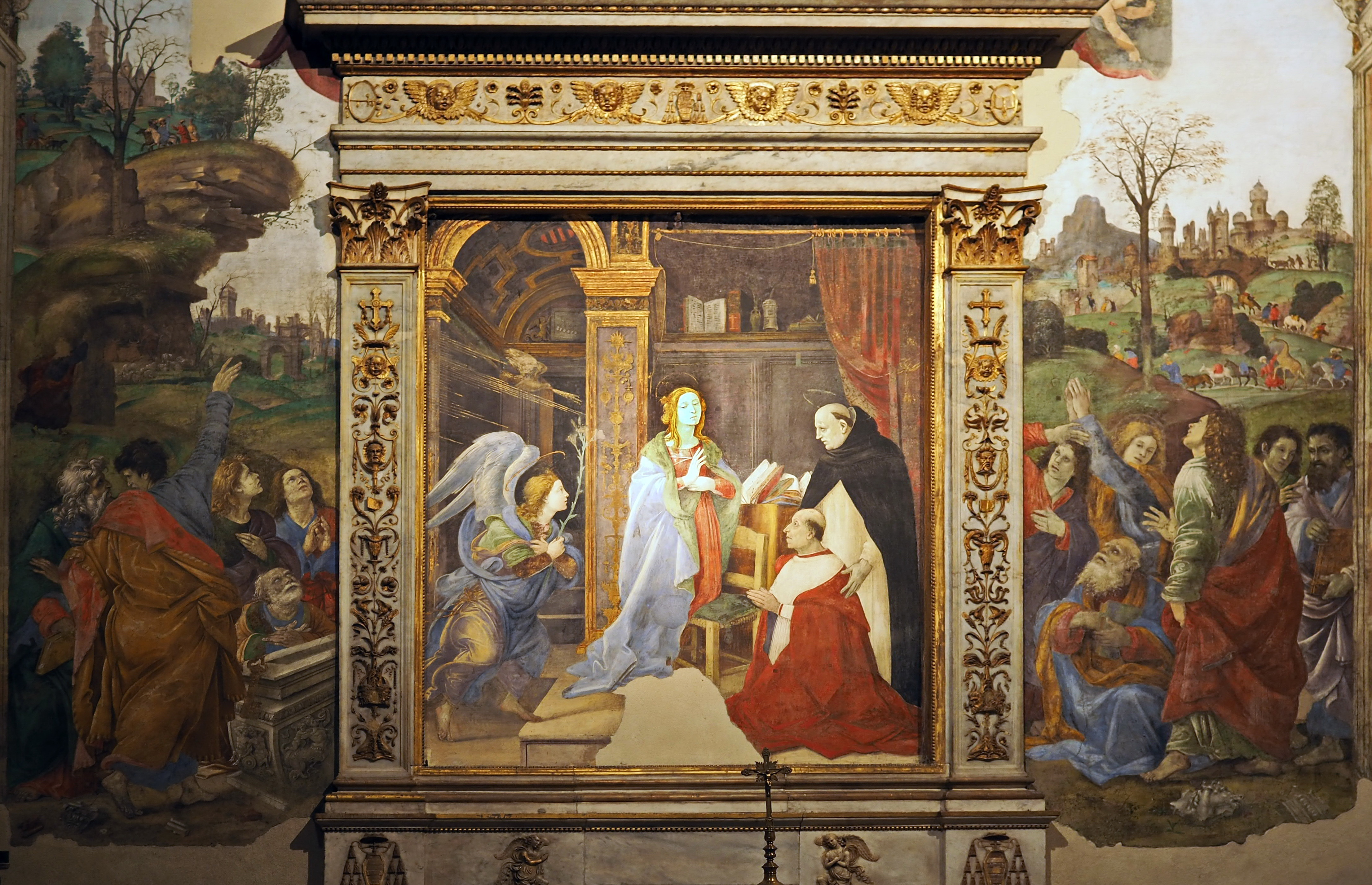 Santa Maria sopra Minerva (Rome); Carafa Chalel; Annuntiation and und Apostels